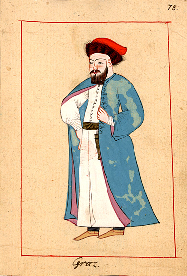 Greek (Pictures from the Ralamb Costume Book, 1657)